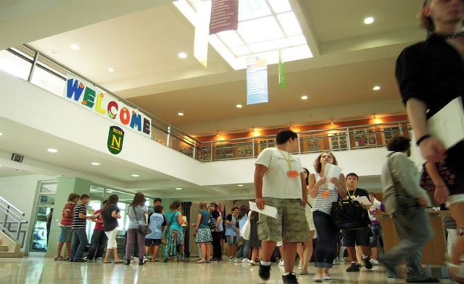 NOVA International Schools High School Main Hall